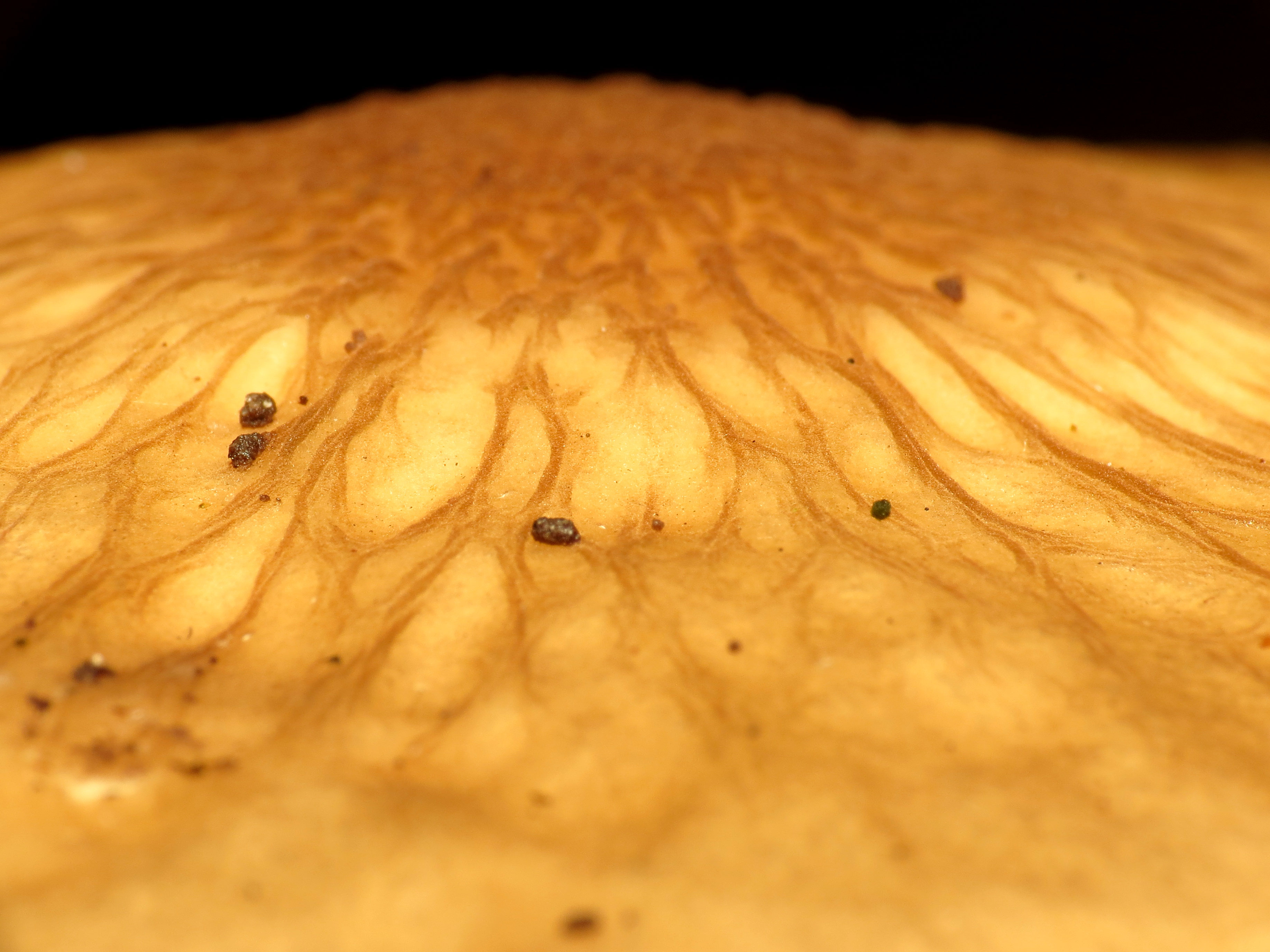 Xerula radicata. Rock Creek Park, Washington, DC, USA